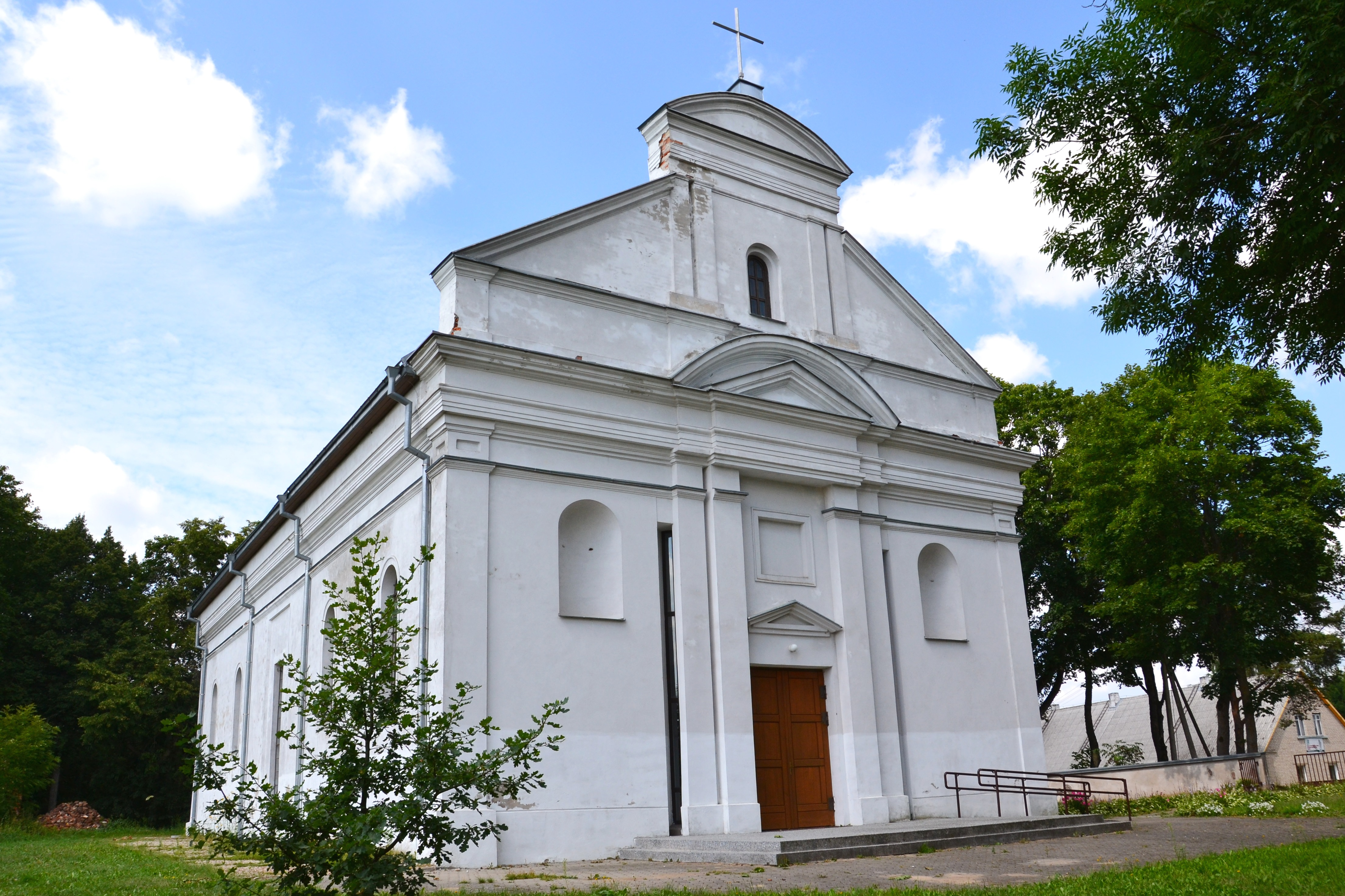 Kolainiai Roman Catholic Church, Kelmes distict, Lithuania